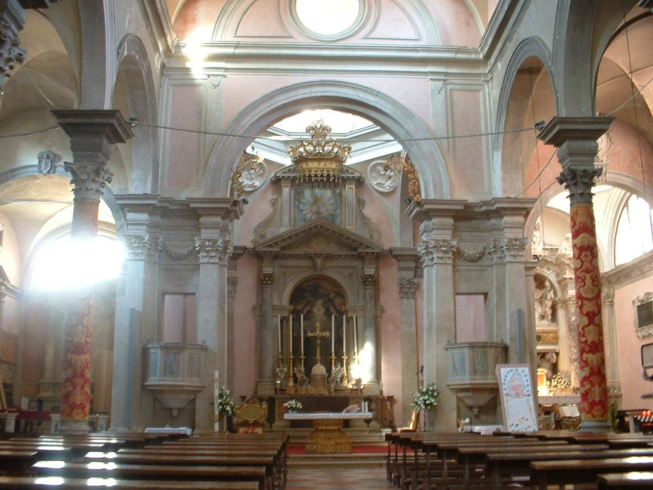 Interior of San Canciano, Venice. Photo taken by Necrothesp, 14 May 2004.